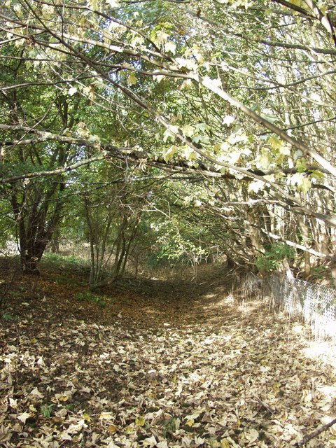 View from the disused Welland Canal.